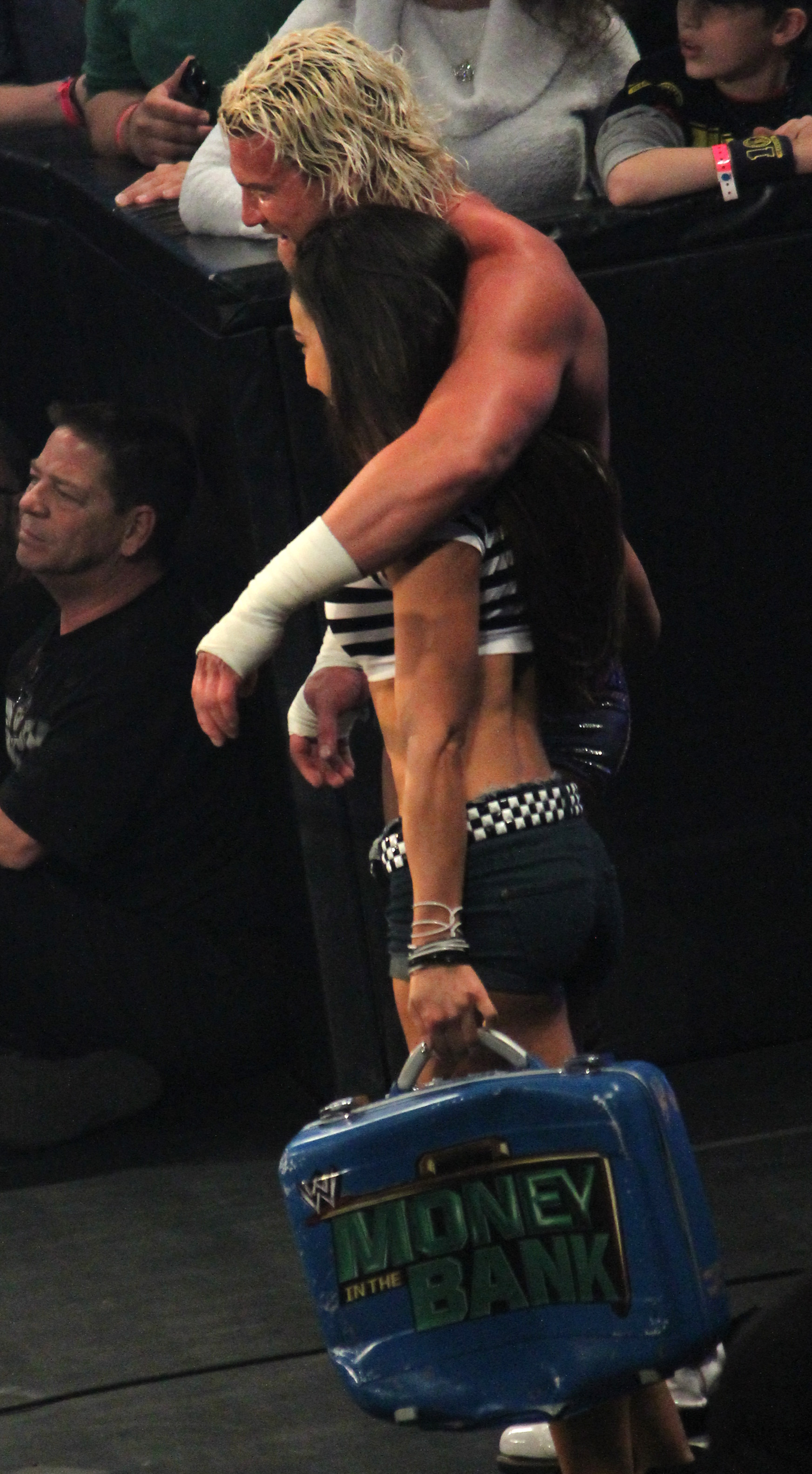 Dolph Ziggler and AJ Lee with the Money in the Bank briefcase at the 2013 WWE Elimination Chamber pay-per-view.